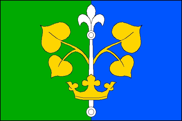 Municipal flag of Bohaté Málkovice village, Vyškov District, Czech Republic.